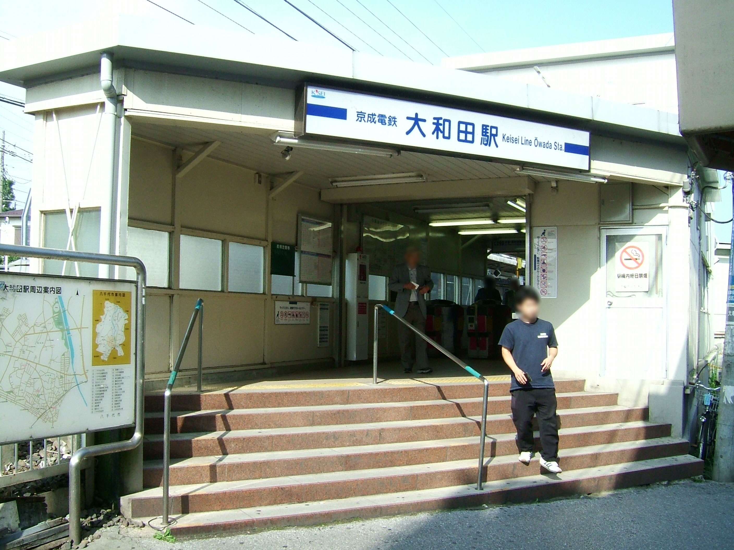 The entrance to the Keisei Ōwada Station on the Keisei Main Line in Yachiyo city, Chiba prefecture, Japan